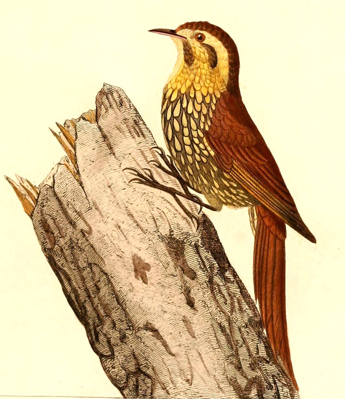 « Anabates squammiger » = Margarornis squamiger (Pearled Treerunner)